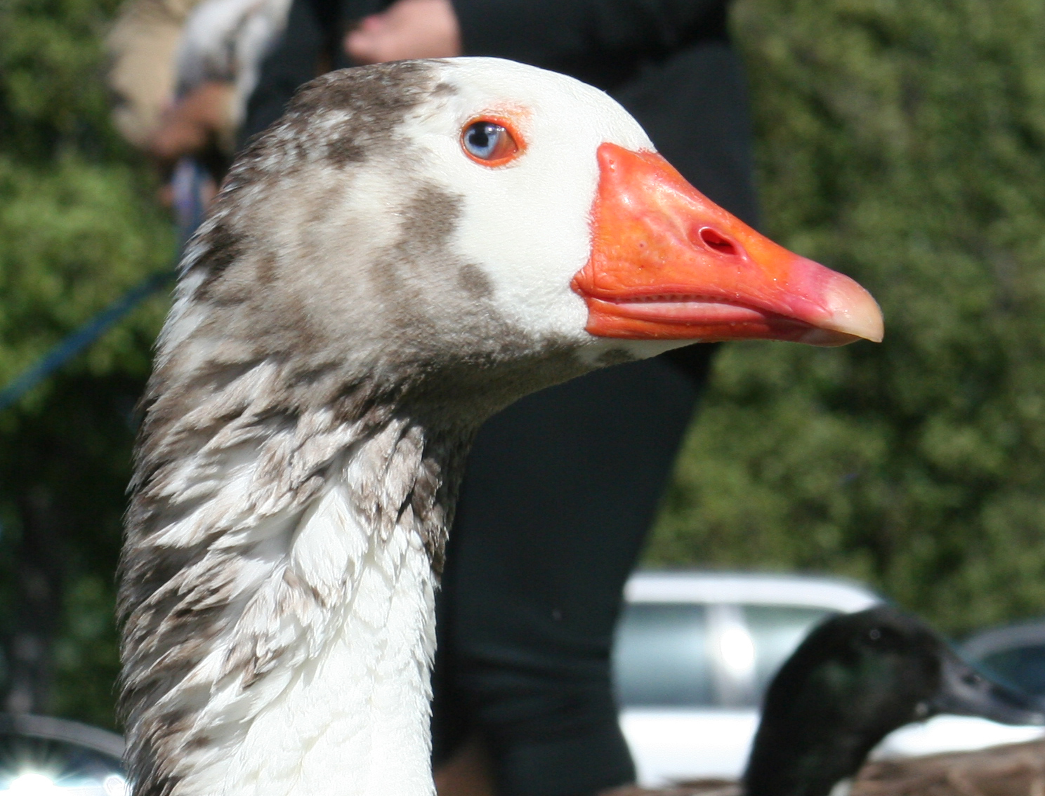 Cotton patch goose at Lake Balboa, CA